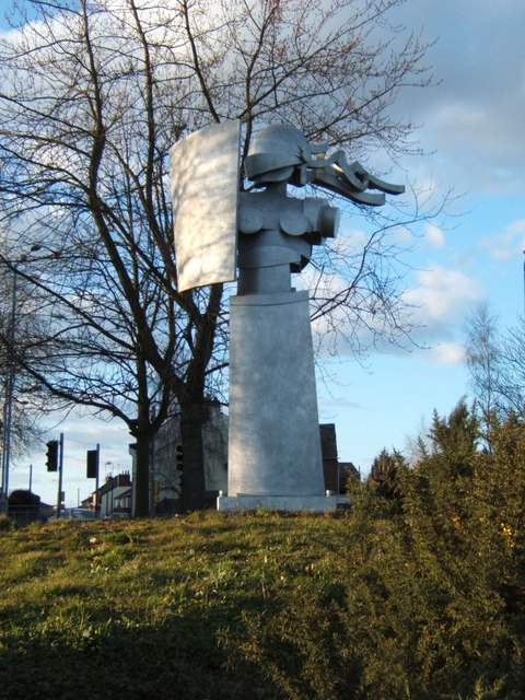 Boudica's Sprit? Colchester. This sculpture stands on a roundabout near Colchester North Station. It is said to represent Boudica (she was Boadicea when I was at school) queen of the Iceni who sacked Colchester in AD60. The work was created by Jonathan Clarke in 1999